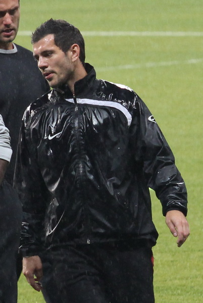 Martin Vyskočil